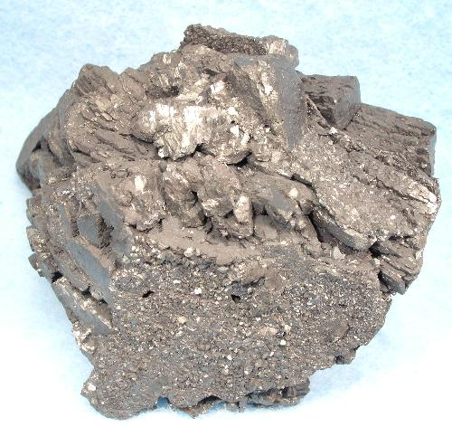 Manganite Locality: N'Chwaning Mines, Kuruman, Kalahari manganese fields, Northern Cape Province, South Africa (Locality at ) Size: 5.8 x 4.8 x 4.4 cm. Large, complex growth of Manganite crystals, which that are essentially doubly-terminated. The Manganites have excellent metallic luster. The forms vary from the classic flat, blocky habit to terminations that are curved and highly lustrous. An aesthetic, important Manganite for the Manganese fields of the Kalahari, where, surprisingly, large and fine manganese crystals are fairly uncommon. Ex. Charlie Key.